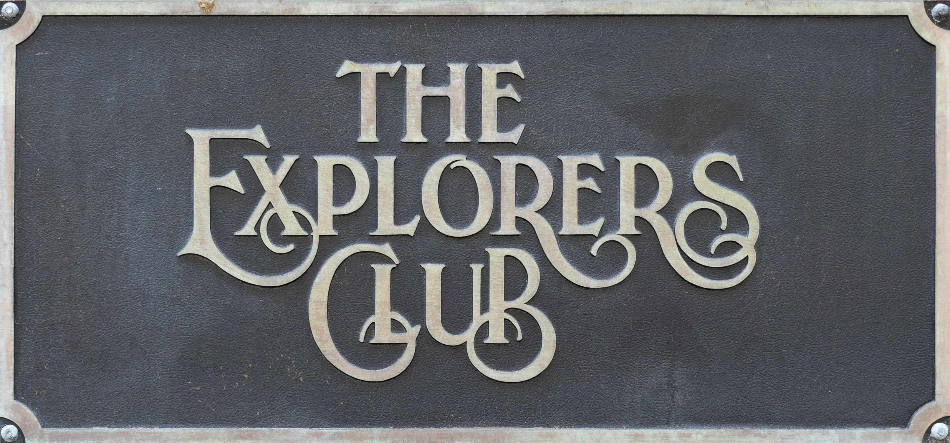 Sign outside the Explorers Club in New York